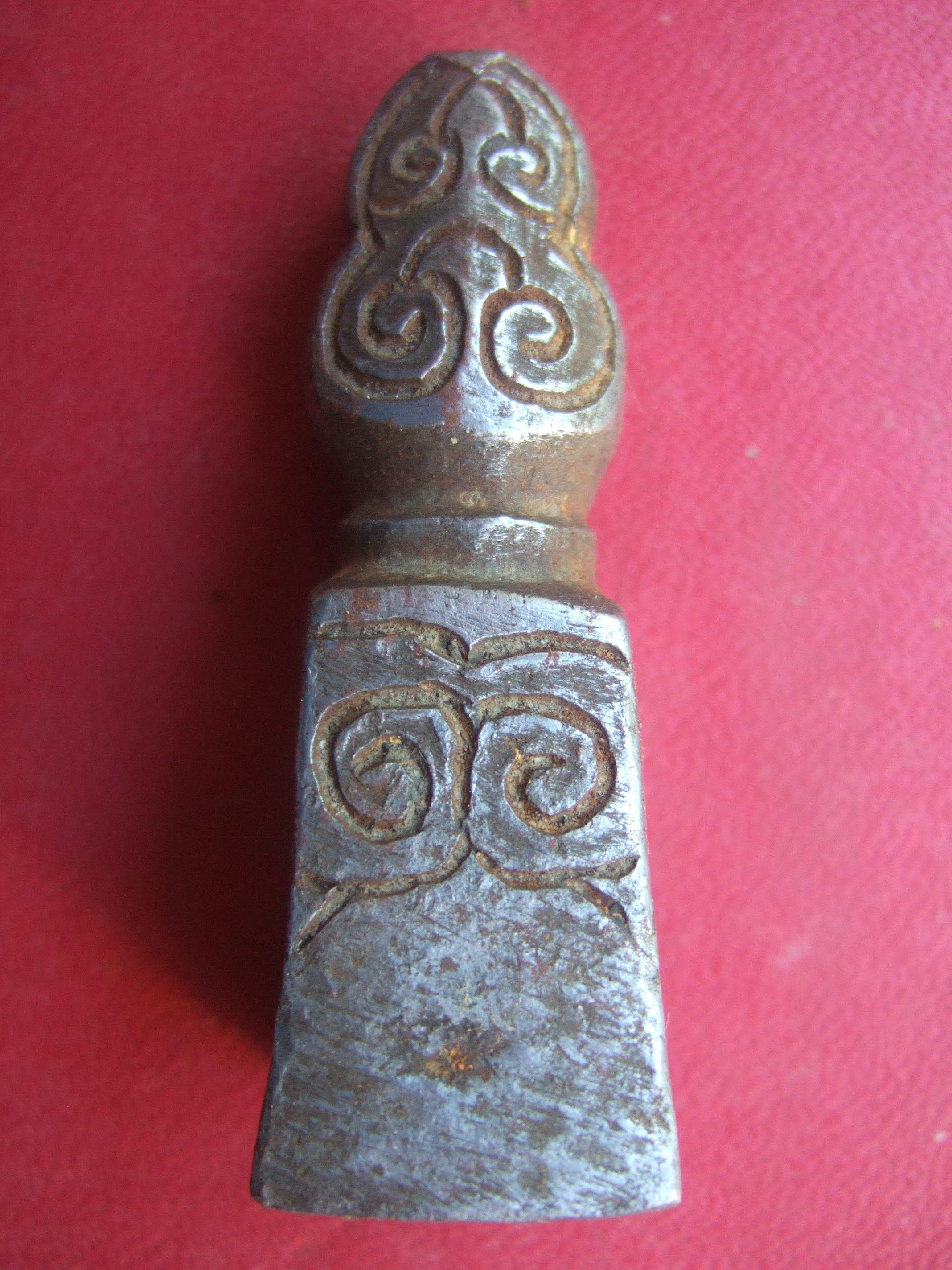 Tibetan iron seal with engraved decoration, no. 4